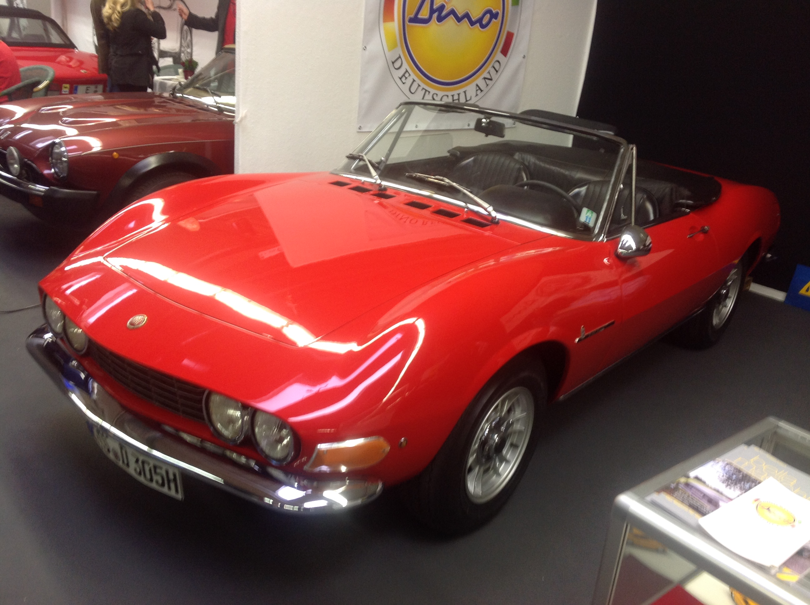 If the Ferrari Dino is high on my favourite car list, then the Fiat Dino Coupe and Spyder are very both close behind.